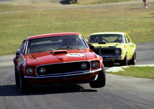 Allan Moffat in the Mustang Boss 302, Lakeside International Raceway, October 1972, Photo by Graham Ruckert.